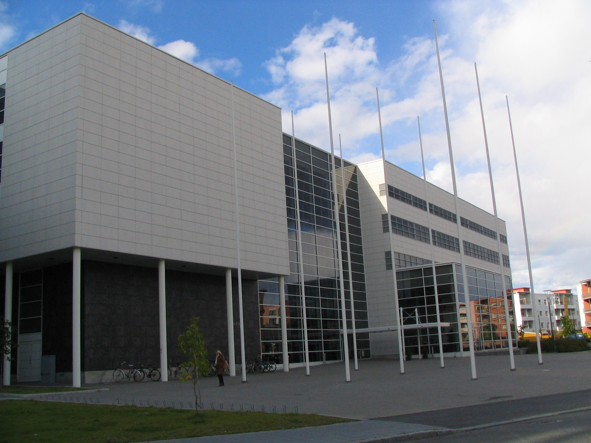 Dynamo building of The School of Information Technology / Jyväskylä University of Applied Sciences.